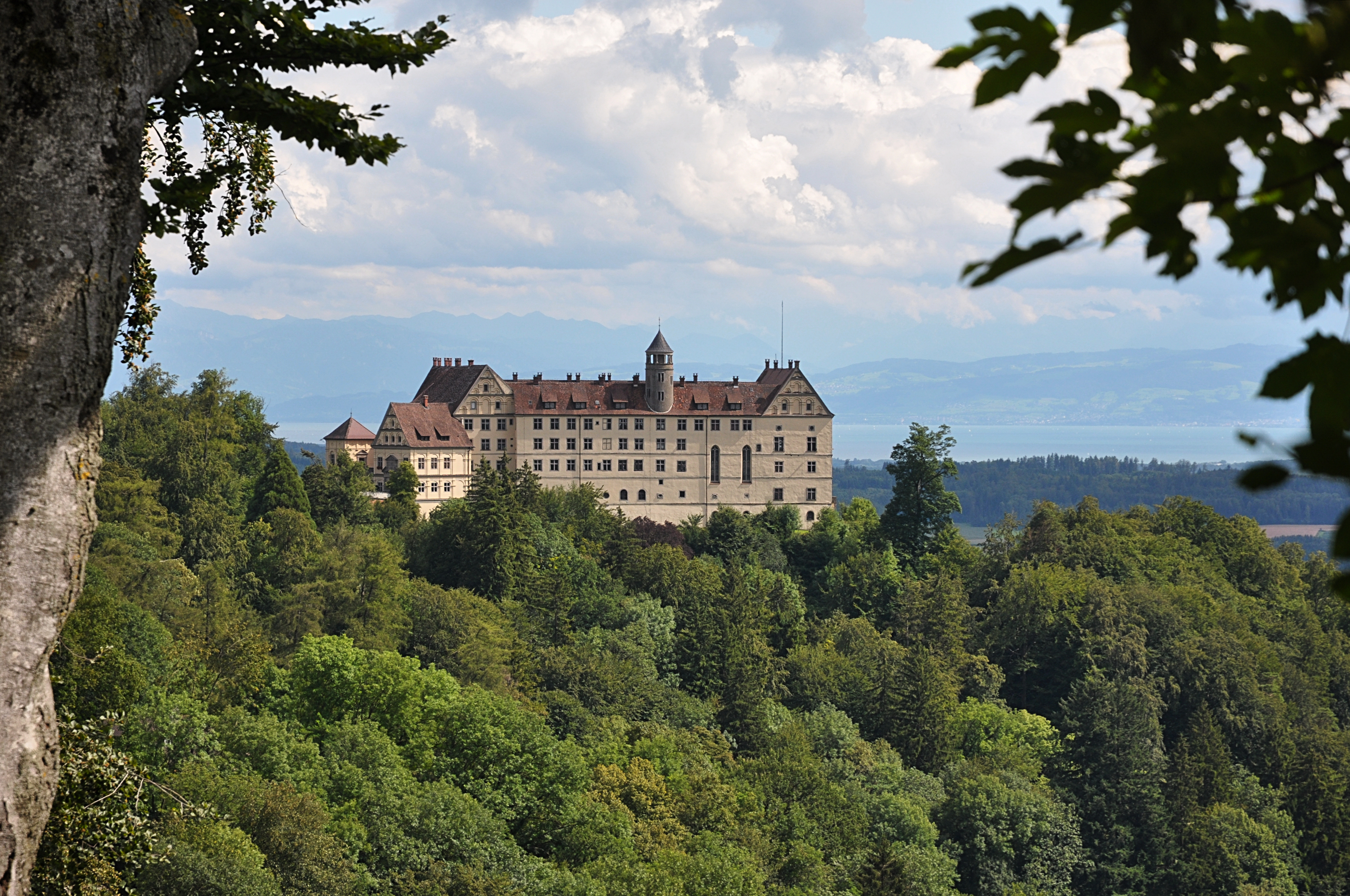 Castle Heiligenberg, Lake Constance, Germany